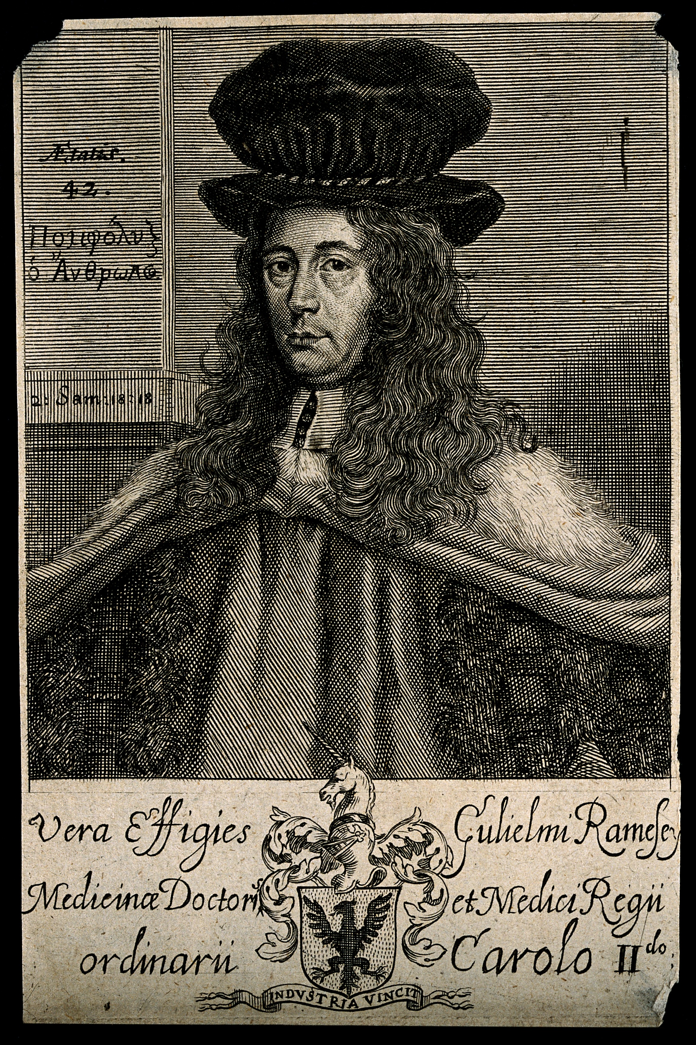 William Ramesey. Line engraving by W. Sherwin, 1668. Iconographic Collections Keywords: portrait prints; engravings; William Ramesey; William Sherwin